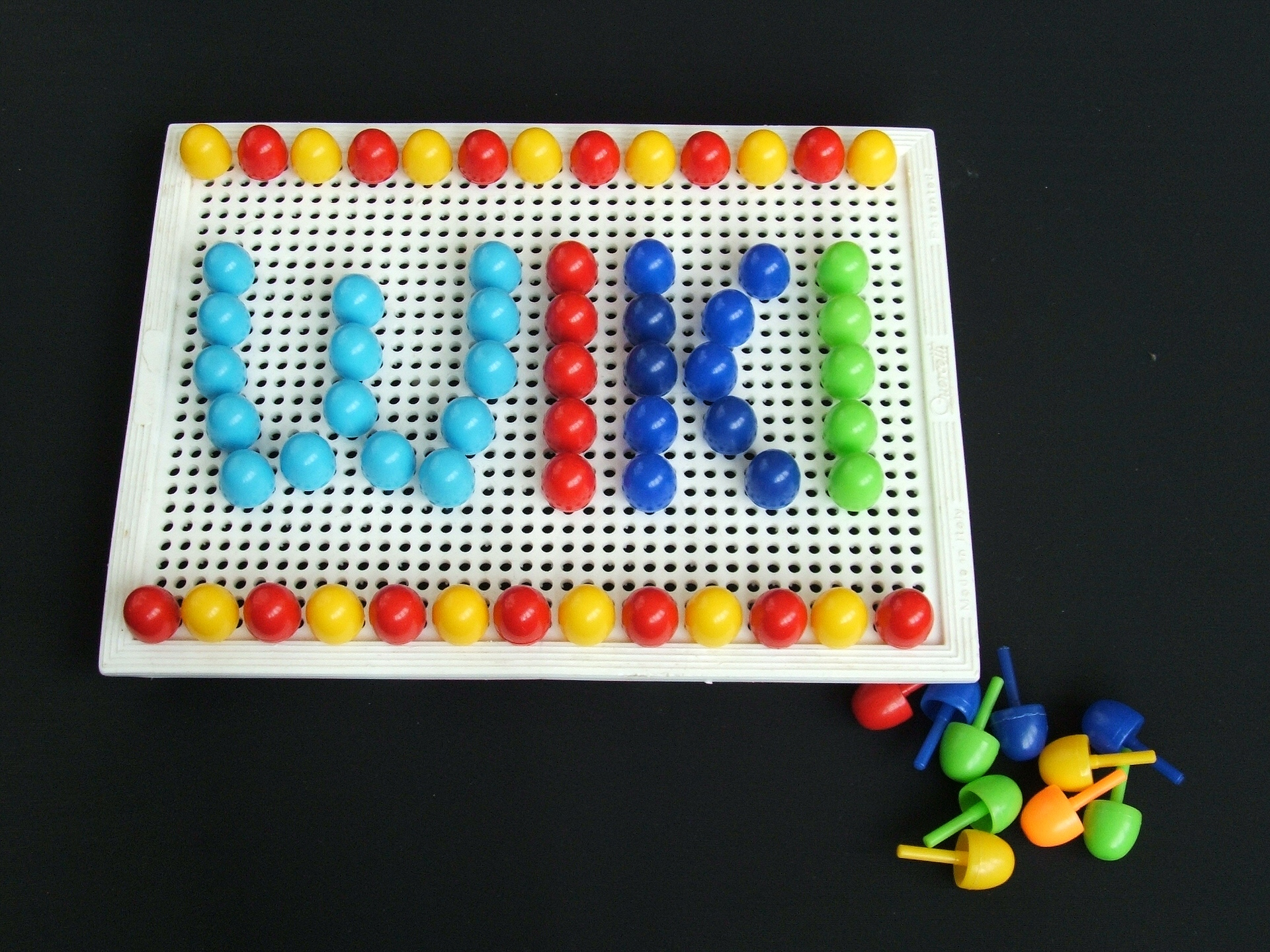 Peg board set